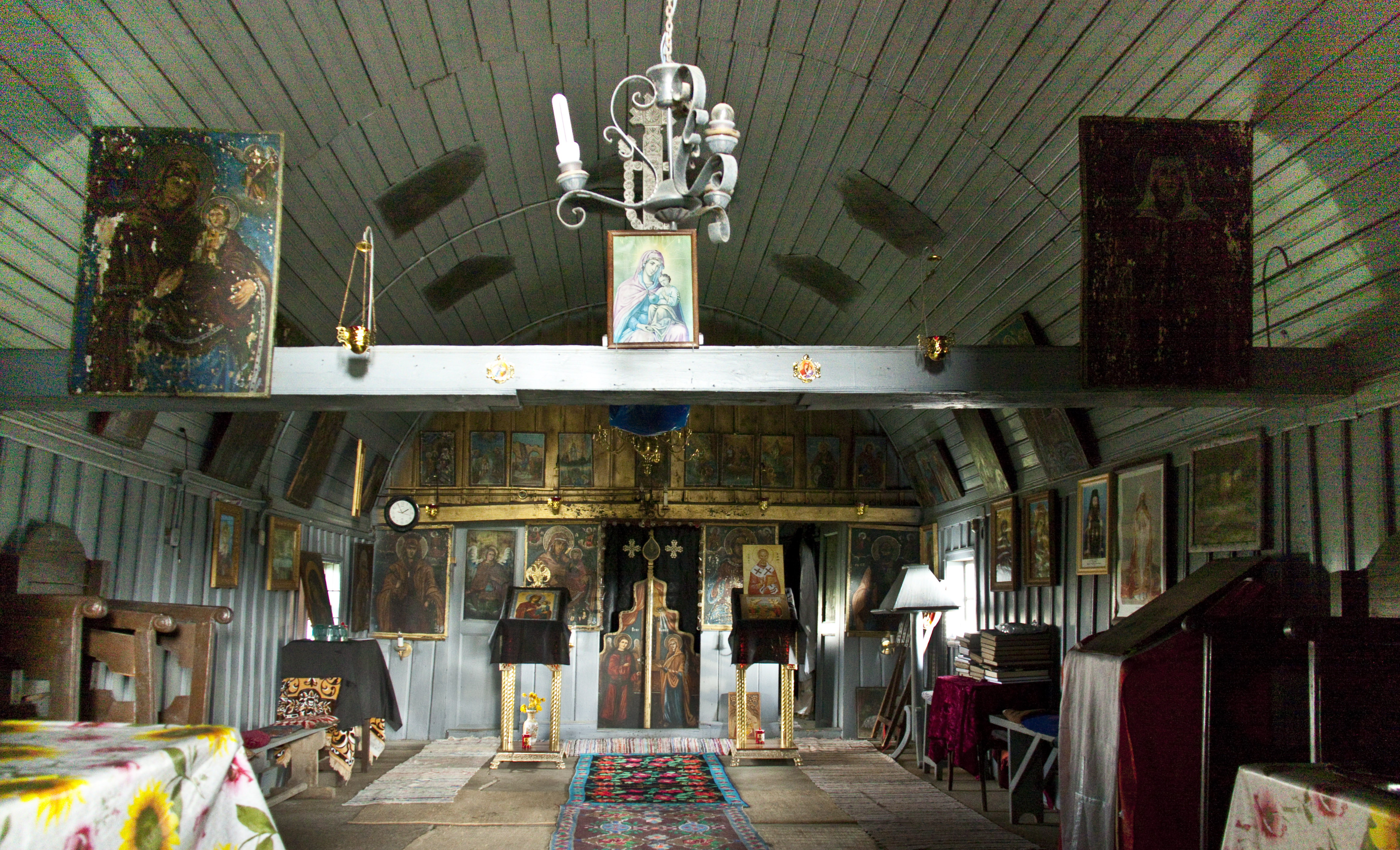 Sericu, Teleorman county, Romania: the wooden church.